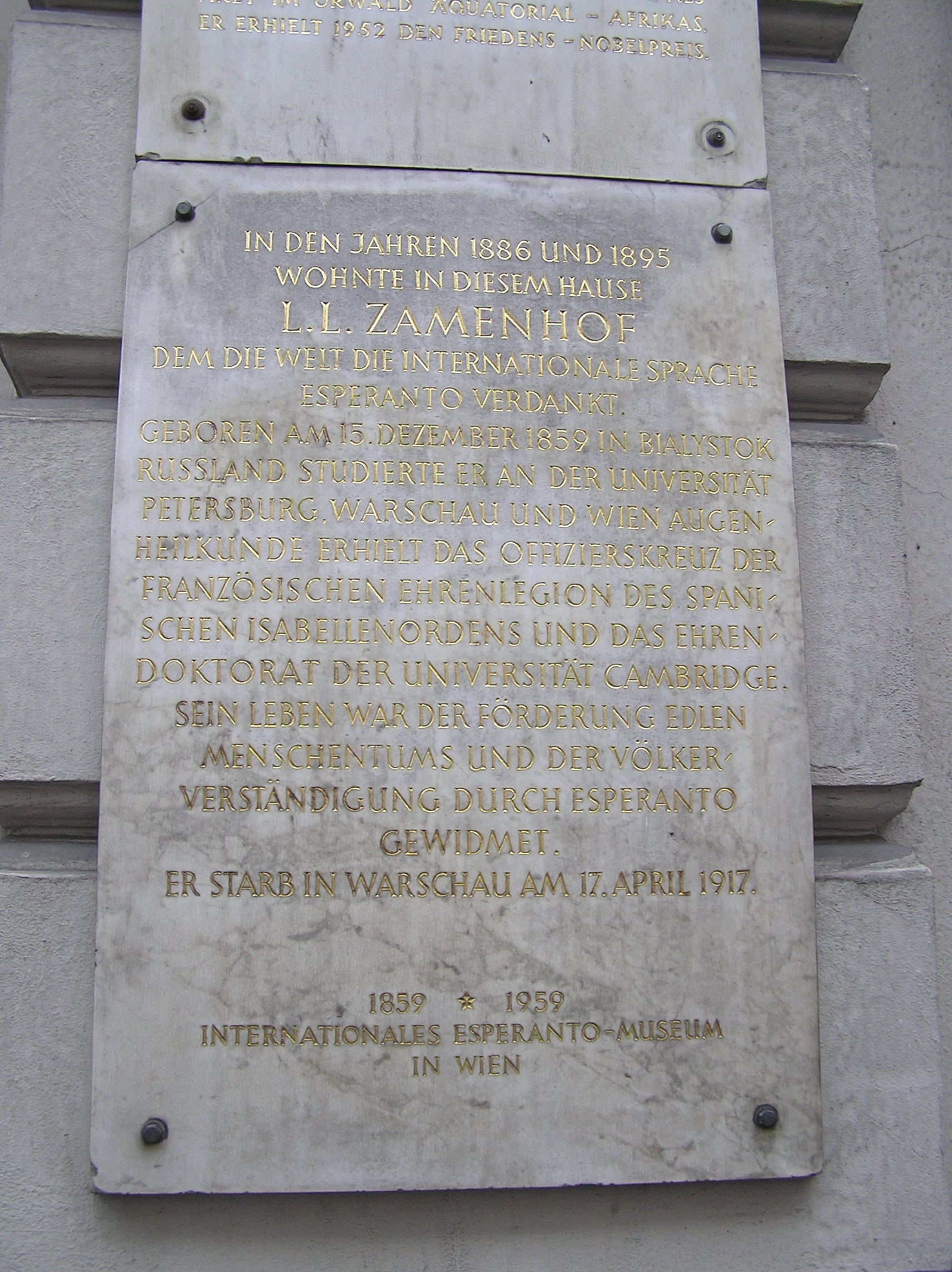 A plaque commemorating L. L. Zamenhof, situated on the house at the corner of Florianigasse and Schlösselgasse in Vienna, where he lived in 1886 and 1895.